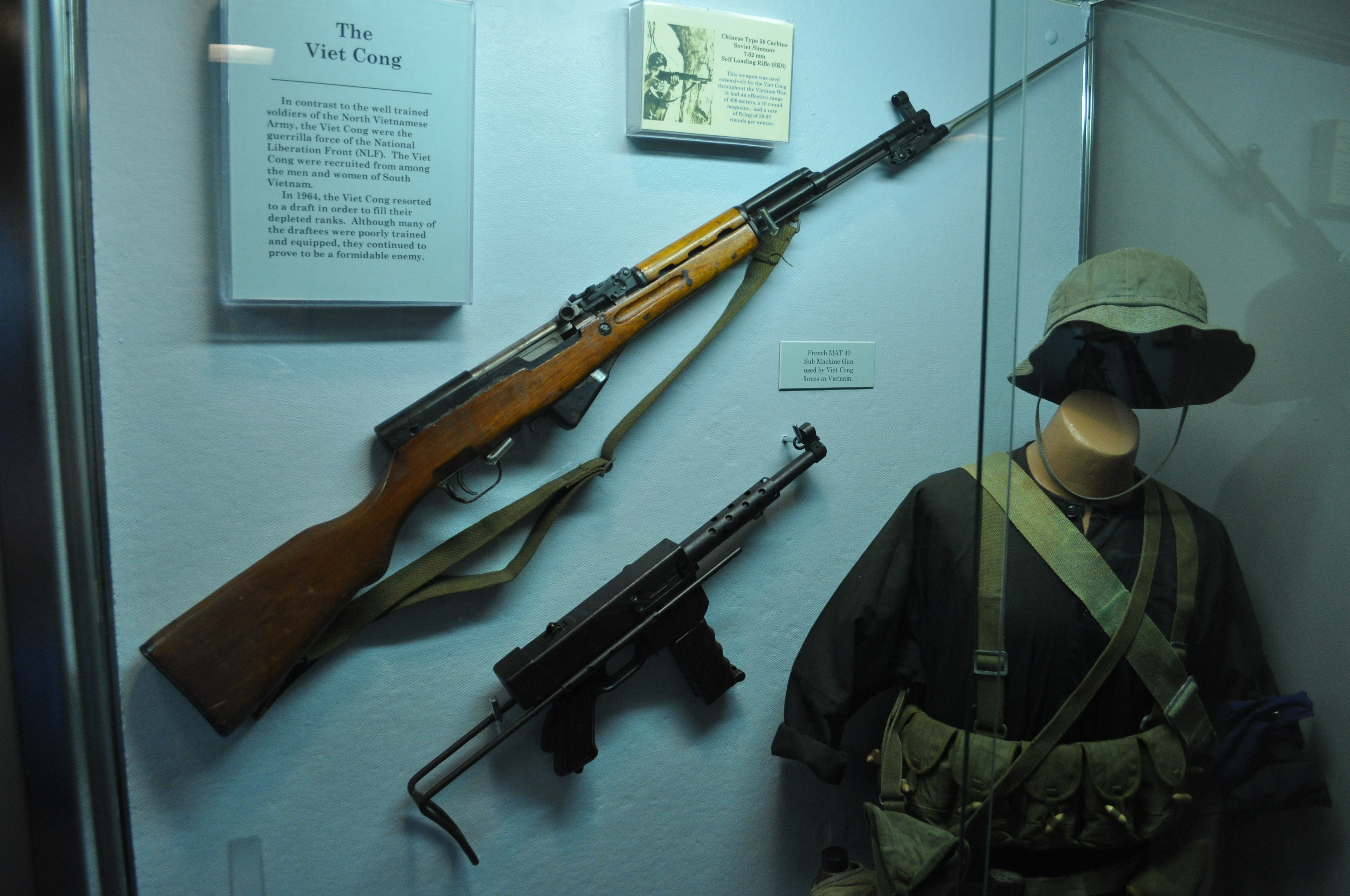 Detail of exhibit: the Vietcong, Fort Lewis Military Museum, Fort Lewis, Washington, USA. Chinese Type 56 Carbine Soviet Simonov 7.62mm Self Loading Rifle (SKS) and French MAT 49 Sub Machine Gun